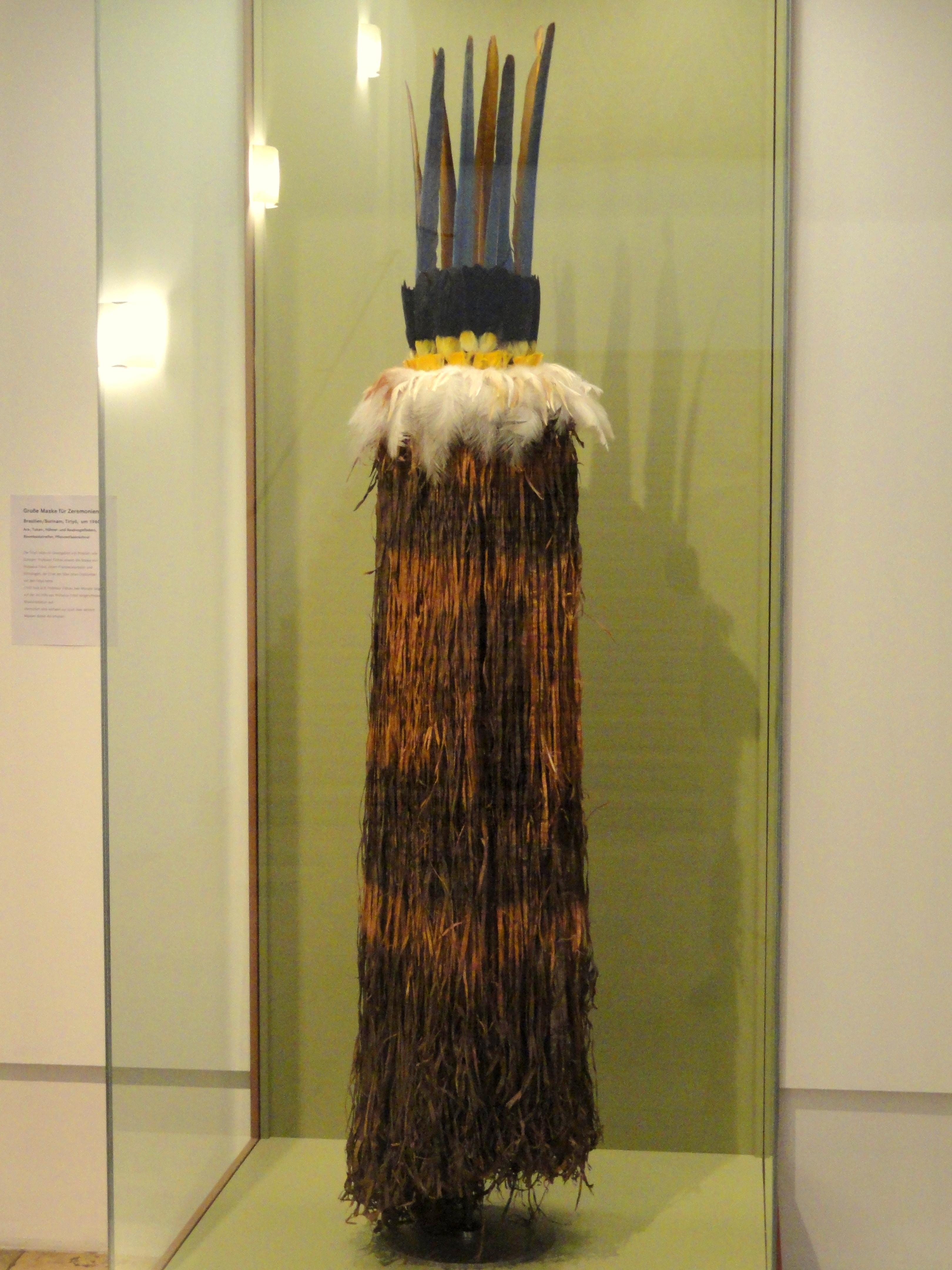 Exhibit from the Latin American collection of the Staatliches Museum für Völkerkunde München, Maximilianstraße 42, Munich, Germany. Ceremonial mask, Tiriyo, 1960, Brazil-Surinam.